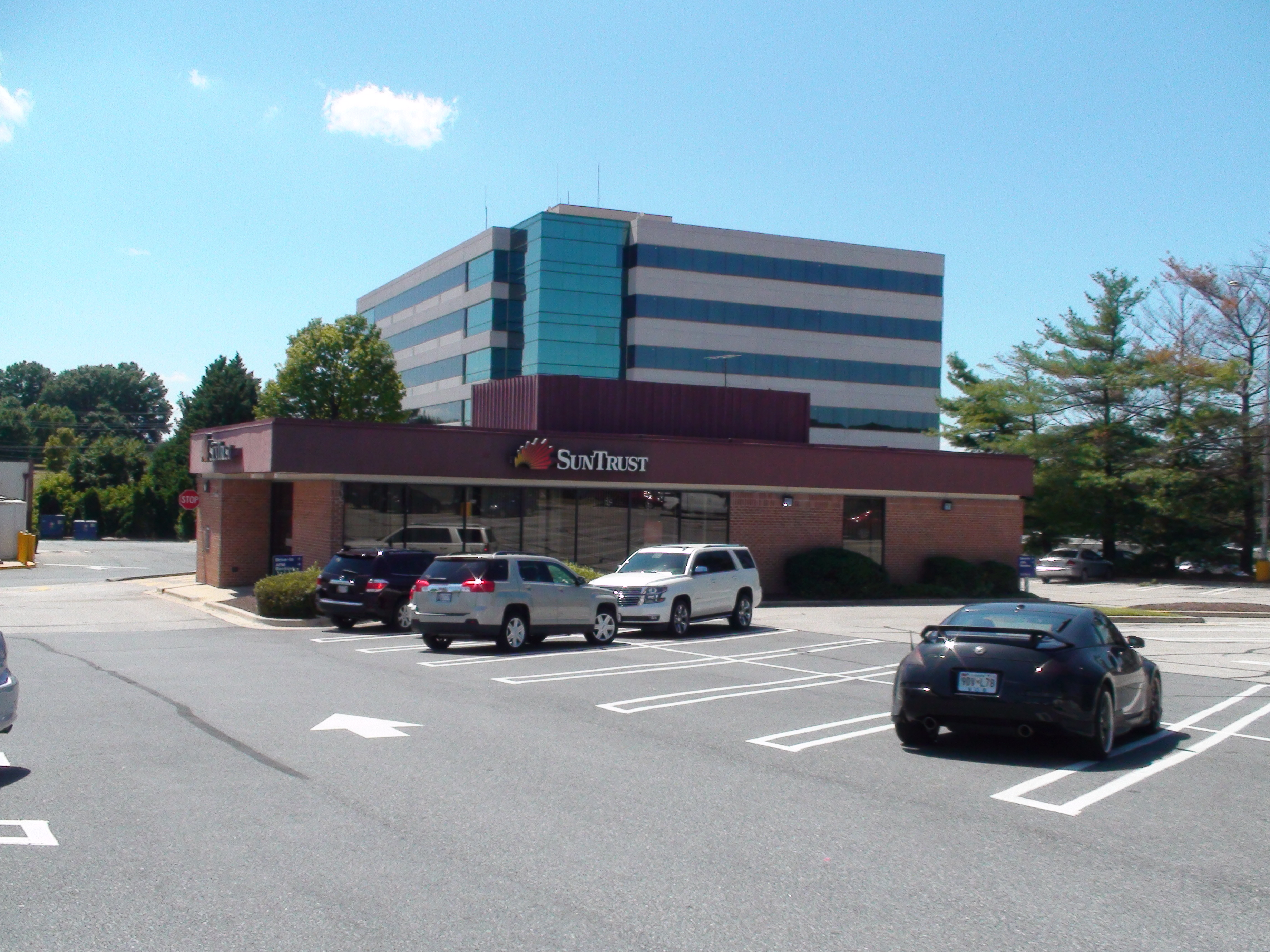 SunTrust Bank at 78 Bureau Drive (20878) in Gaithersburg, Maryland, on August 25, 2015. Photograph taken on August 25, 2015, in Gaithersburg, Maryland, with a Sony HDR-SR11 camcorder, by Illegitimate Barrister.